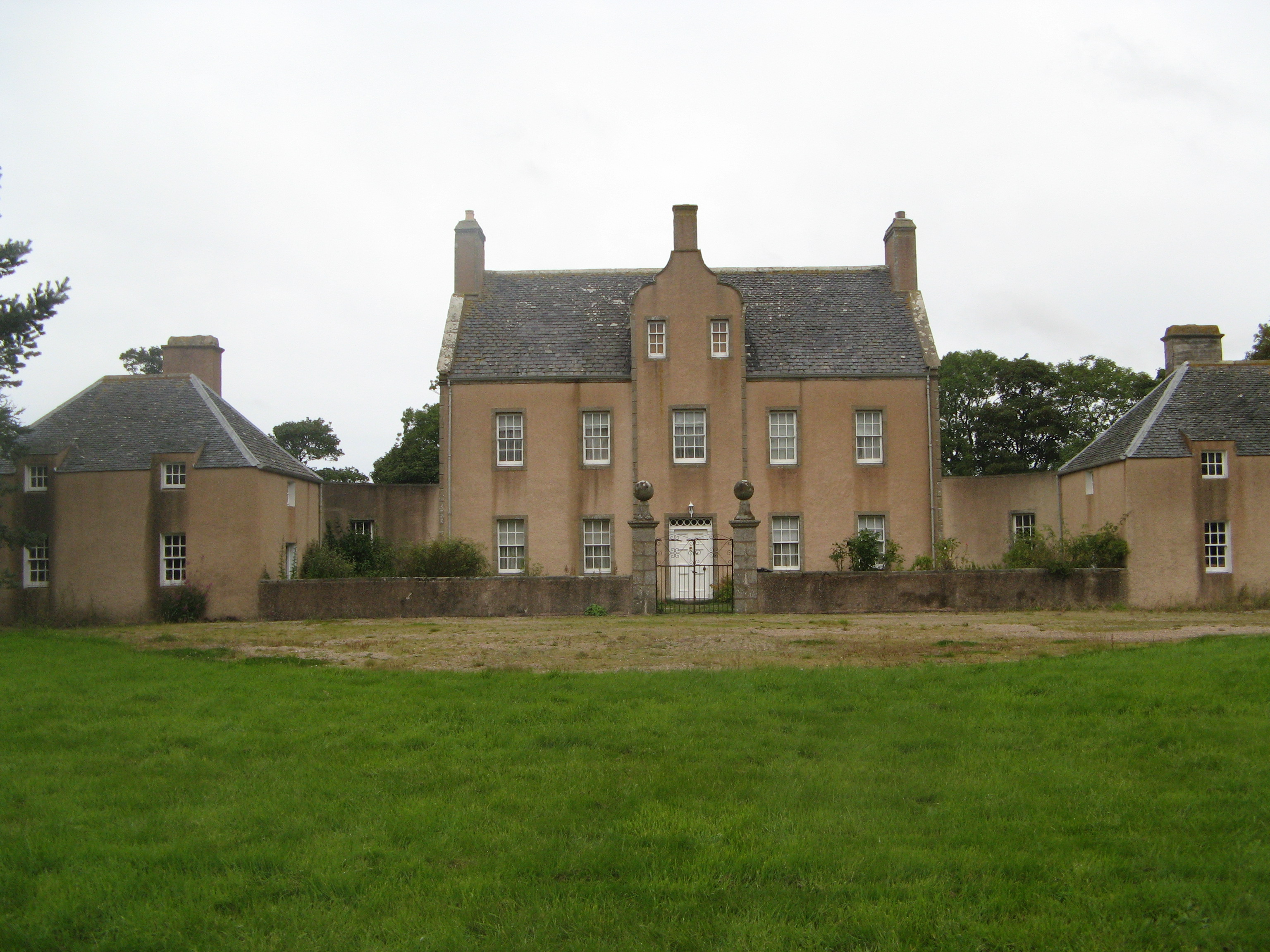 House of Memsie, Category A listed building